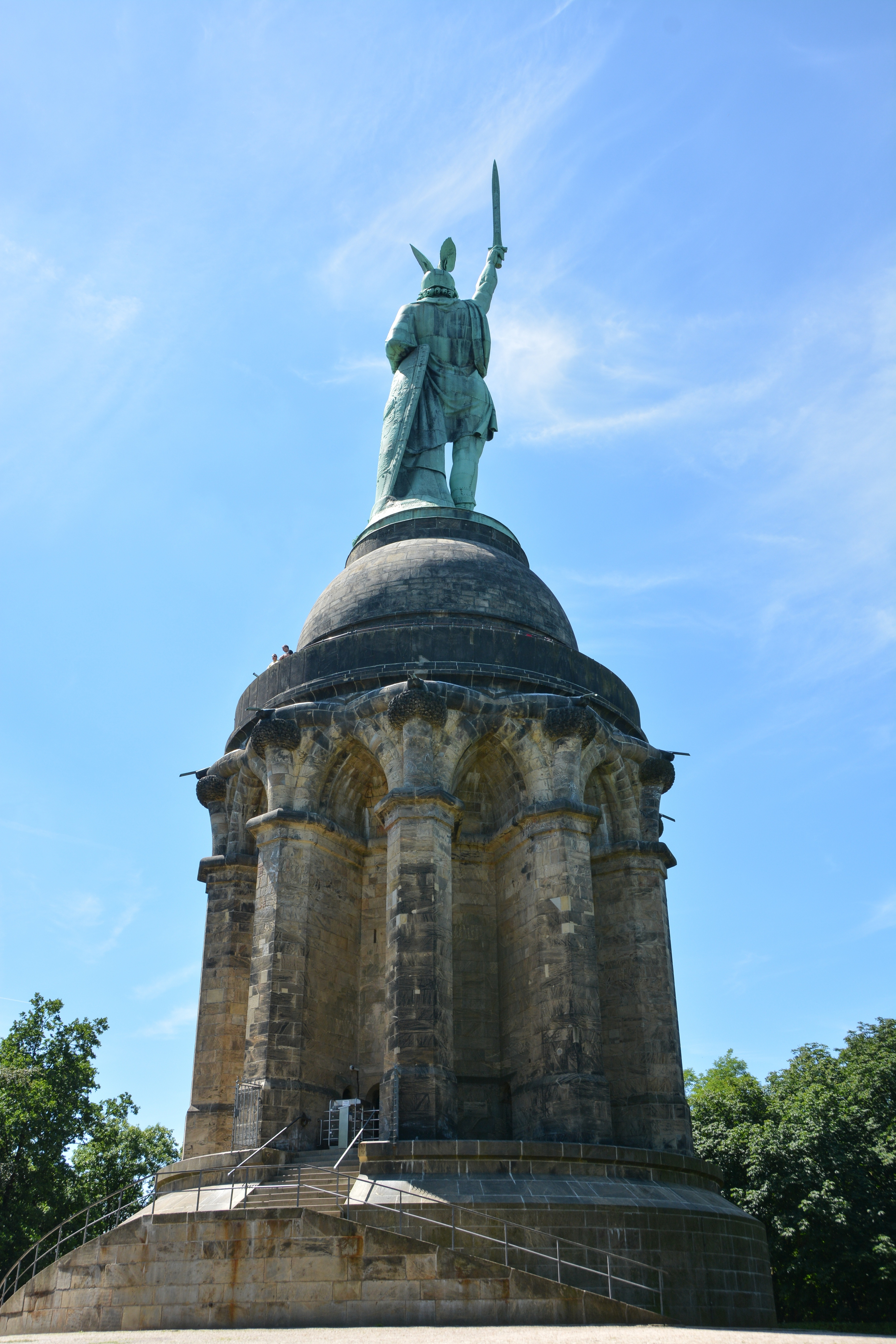 Hermannsdenkmal ("Hermann Monument") in the Teutoburger Wald (Teutoburg Forest), Germany}, rear view of the monument